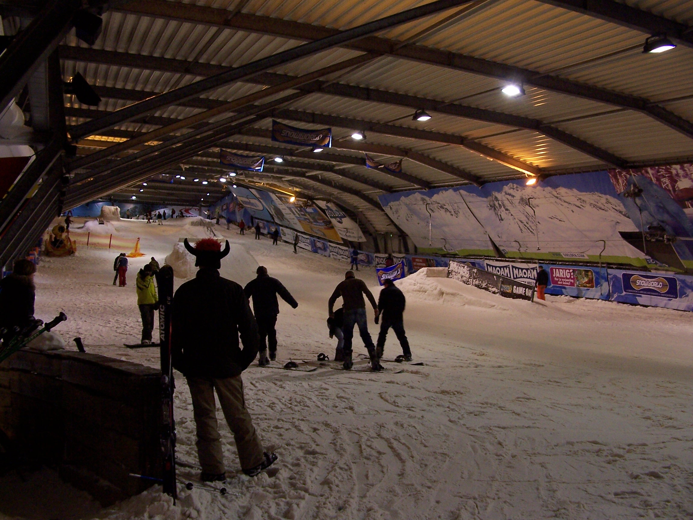 Snowworld in Zoetermeer from the inside